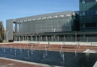 My project